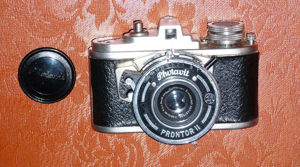 Bolta Photavit camera